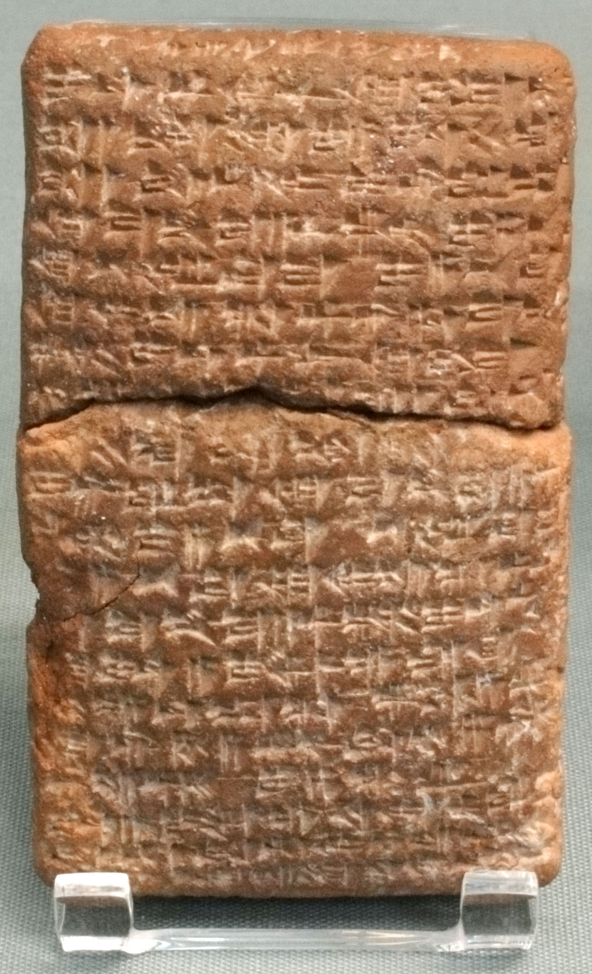 Treaty c.1480BC for fugitive slaves. Clay cuneiform tablet.